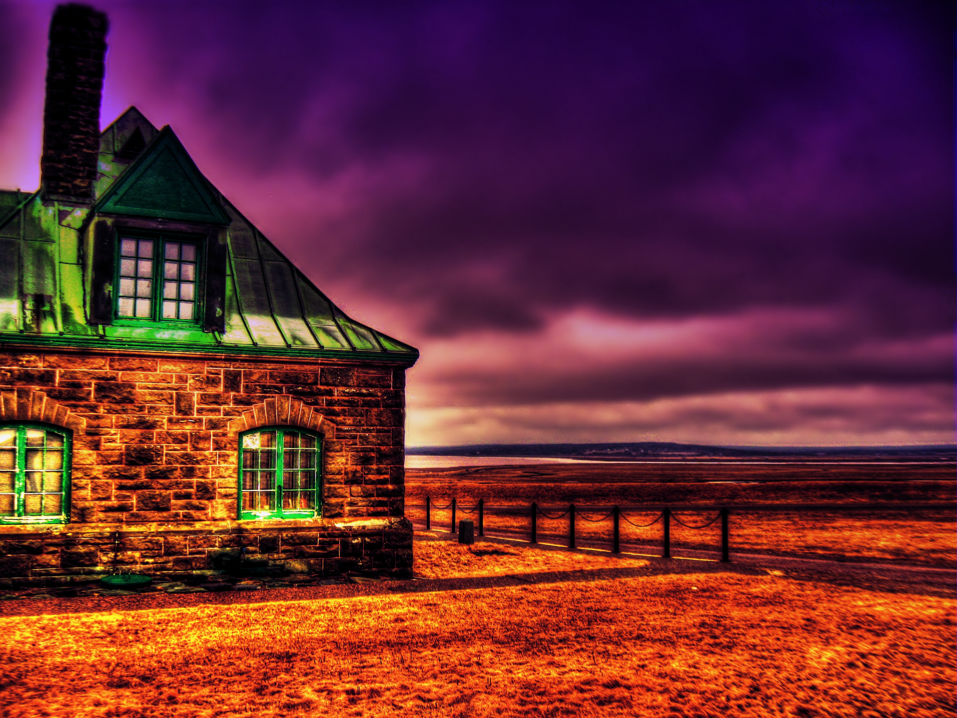 This building is located at Fort Beausejour/Fort Cumberland in Aulac New Brunswick.